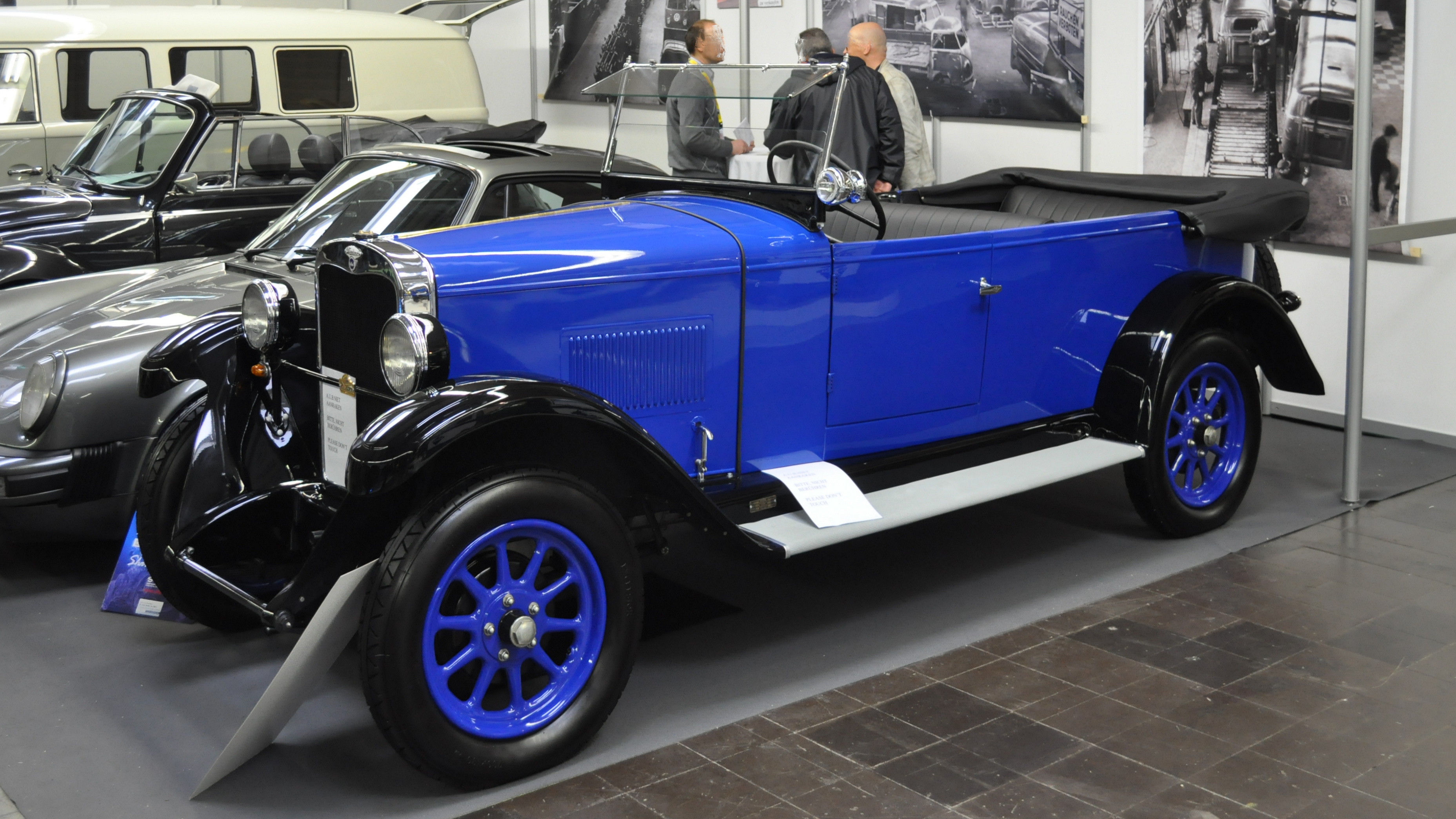 Wanderer W10/1 (1927) at the Essen-Technoclassica 2011